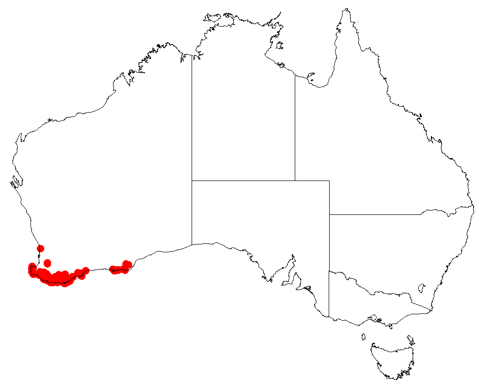 Bossiaea praetermissa Occurrence data downloaded 11 September 2018 from AVH